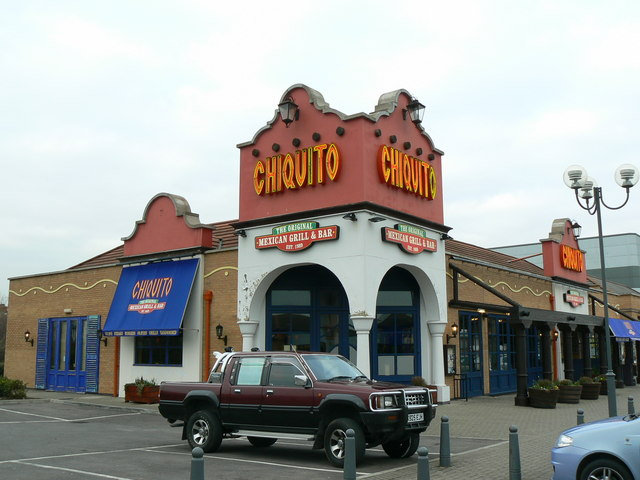 Chiquito Mexican restaurant, Greenbridge Retail Park, Swindon This is one of several restaurants and fast food outlets at this retail park.